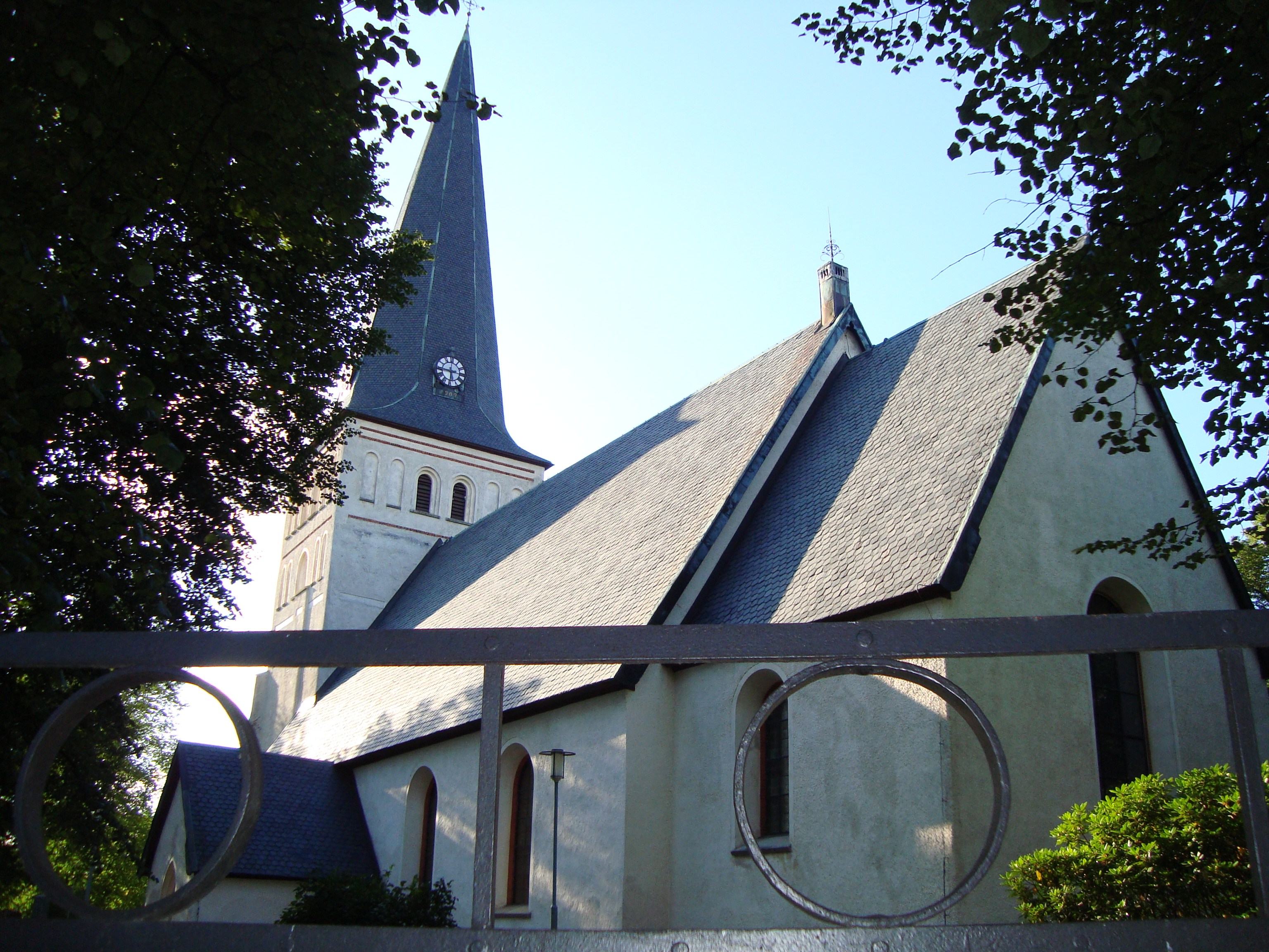 Church of Norberg, Sweden